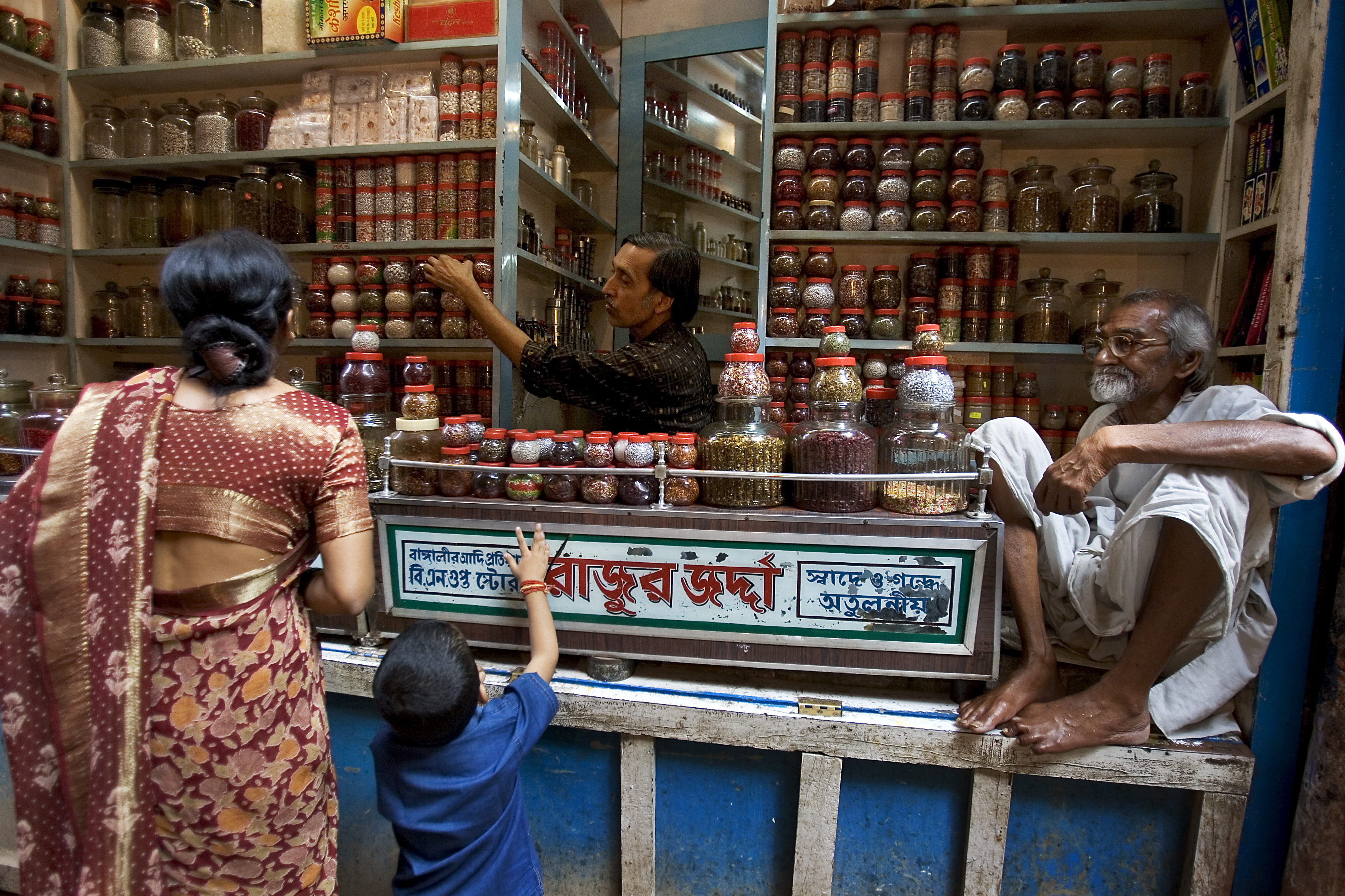 Spice store Main market Varanasi Benares India